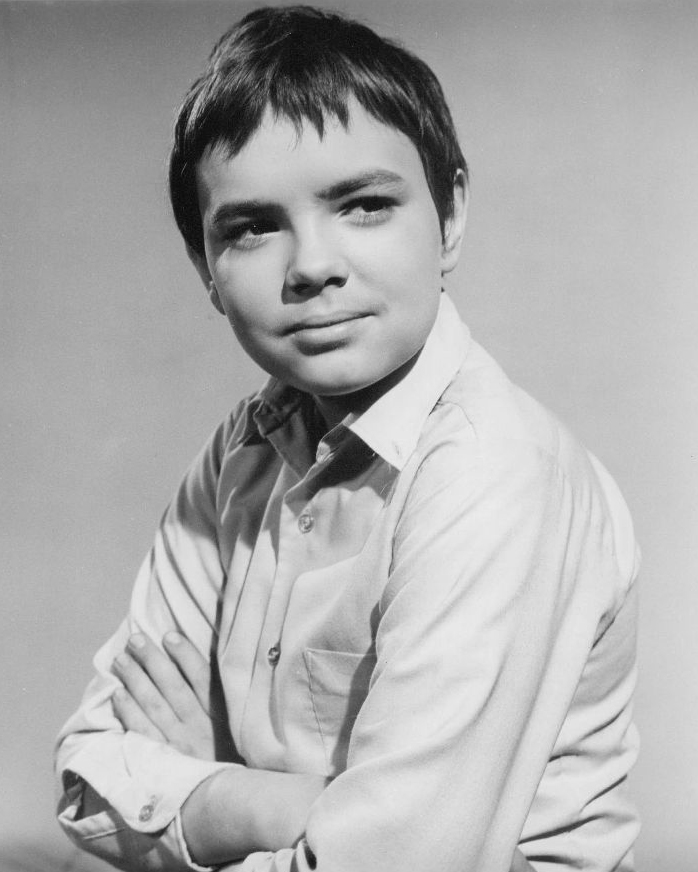 Publicity photo of child actor Stefan Arngrim promoting his role on the television series Land of the Giants.